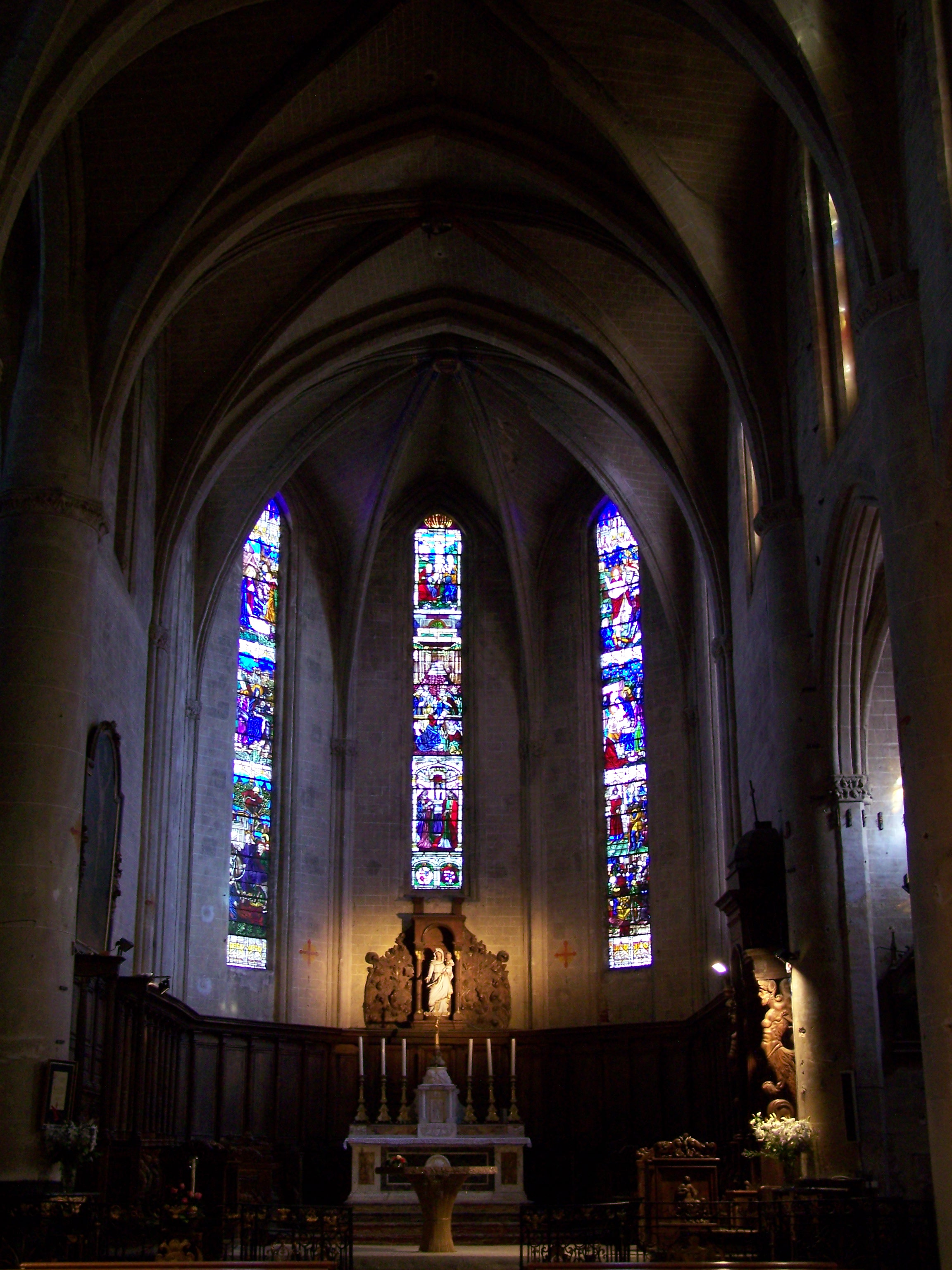 Choir and abse of the main nave of Cathédrale Sainte Marie in Lombez.